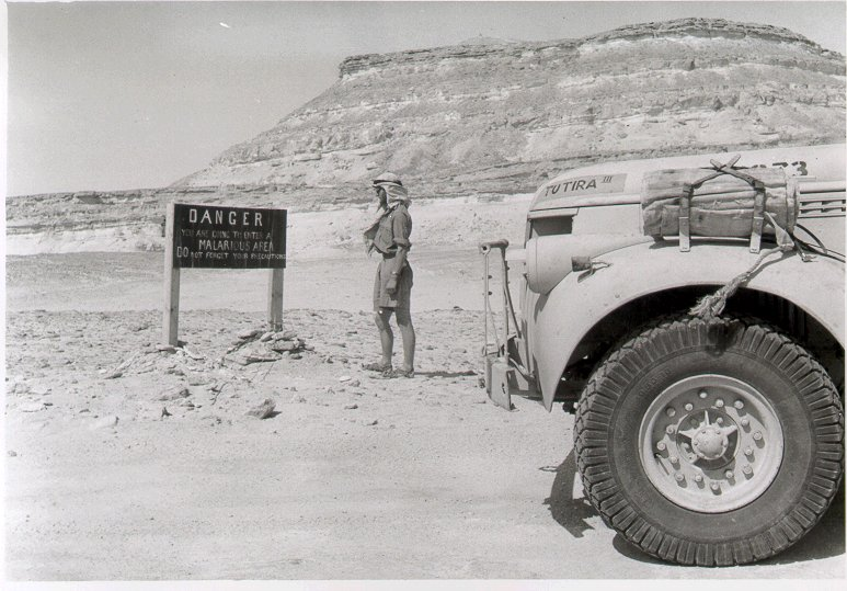 "Tutira III" a T Patrol Long Range Desert Group 30 cwt Chevrolet. Category:Groups of World War II Category:Special forces of New Zealand Category:Special forces units and formations Category:Military units and formations established in 1940 Long Range Desert Group Long Range Desert Group